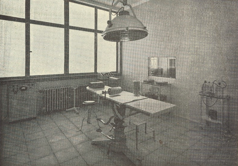 Operating theater on the Sanatório das Penhas da Saúde (Penhas da Saúde Sanatorium), near the city of Covilhã, in Portugal. This image was published in the Gazeta dos Caminhos de Ferro magazine No. 1398, of 16th March 1946, and scanned by the Hemeroteca Municipal de Lisboa